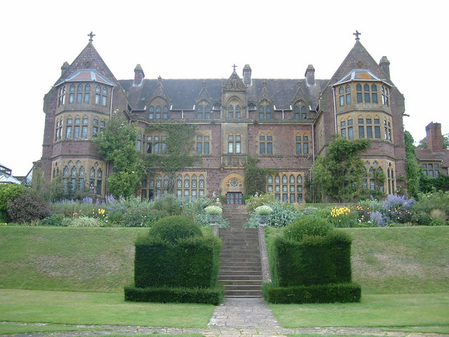 Knightshayes Court. Taken from the lawn, this is a superb building with magnificent gardens.